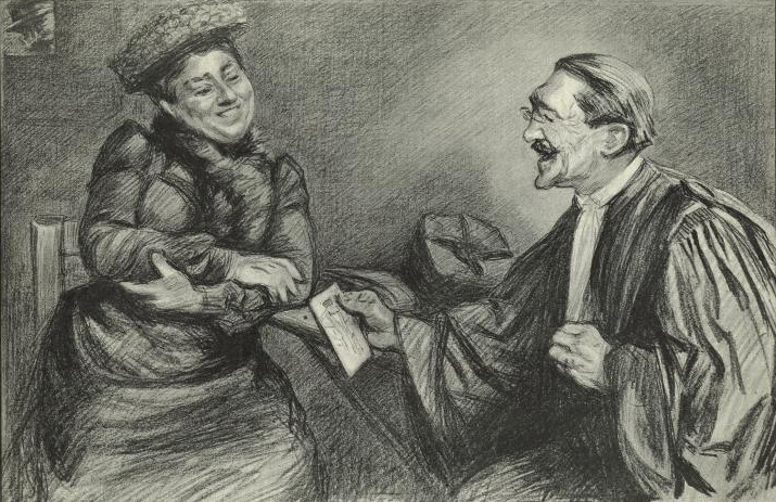 "Madame Humbert and her counsel : an appreciation of the humorous side of the 'cause célèbre'". Printed on border: "Our Paris correspondent writes: ... The interviews between Me. Henri Robert, her eminent advocate, and la grande Thérèse, as an admiring Paris now calls her, are not the solemn and depressed conferences the public imagines. Mme. Humbert is perfectly cheerful, and often moves her counsel to laughter by some story or some funny remark." Written on border: "Feb. 1903"